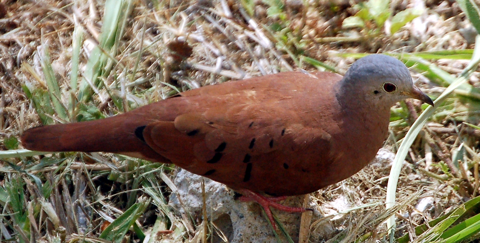 Columbina talpacoti (Ruddy ground dove)